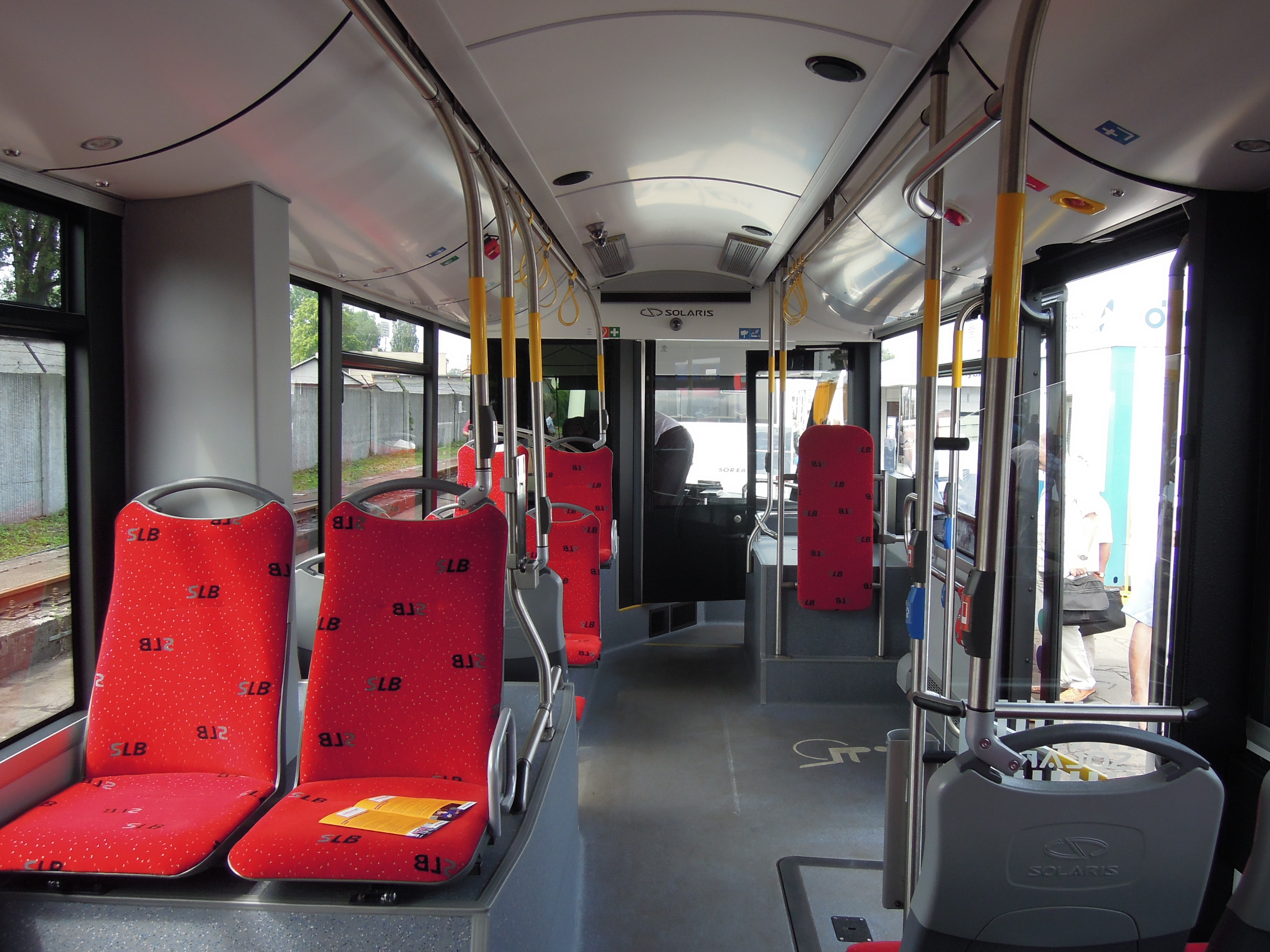 Solaris Trollino 18AC Tram-Look trolleybus at the Czech Raildays 2012 trade fair in Ostrava, Czech Republic. Built 2012, Salzburg AG from Austria operator.